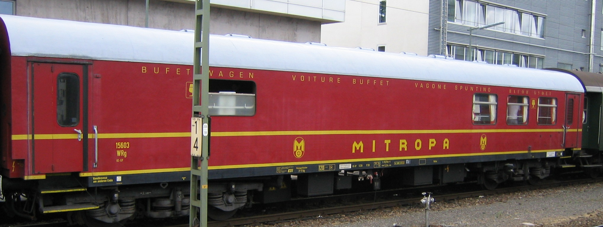 Voiture Buffet by Mitropa in Freiburg im Breisgau